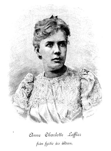 Anne Charlotte Leffler in her 40s